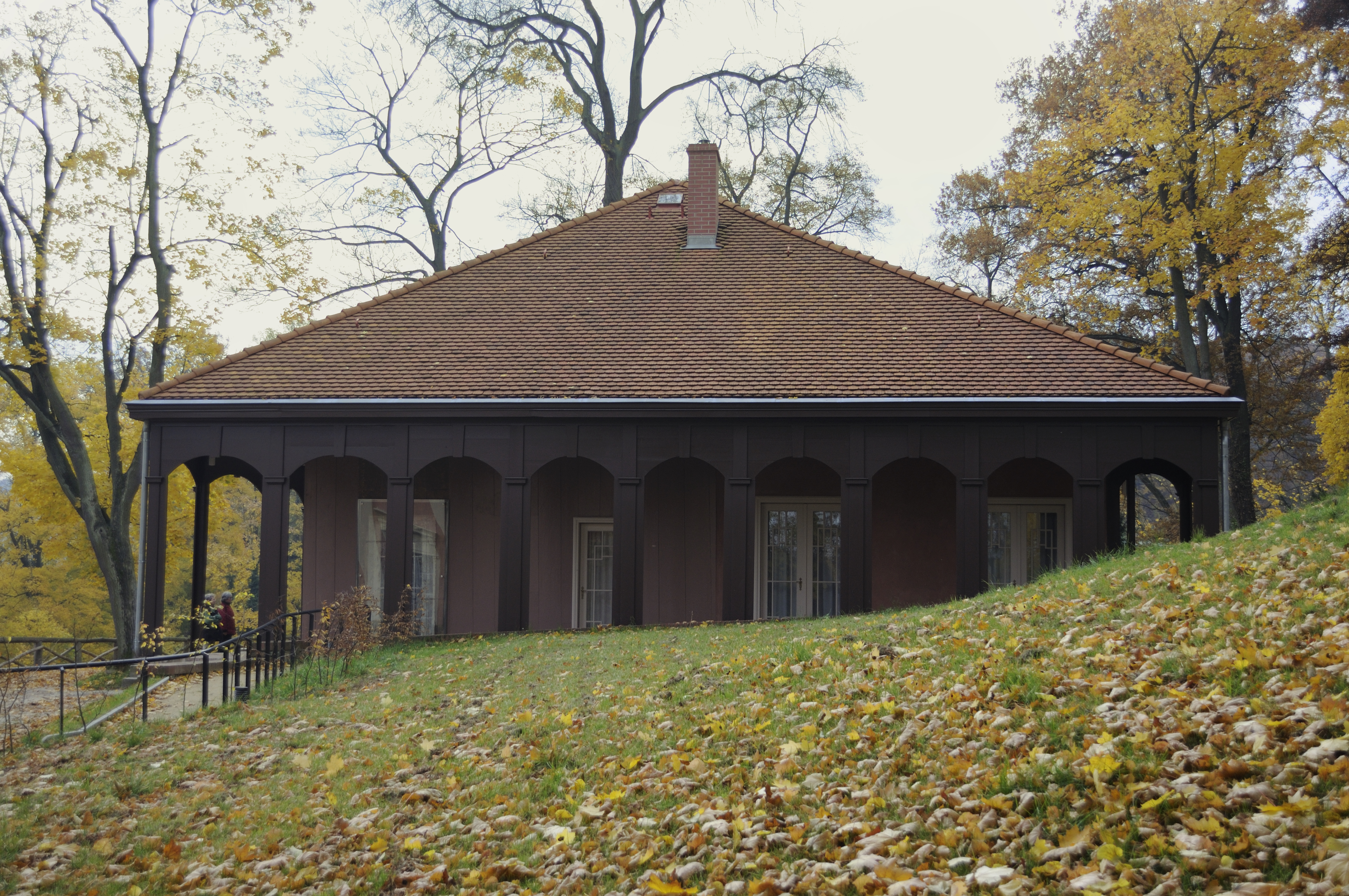 Picture taken in Bad Freienwalde.